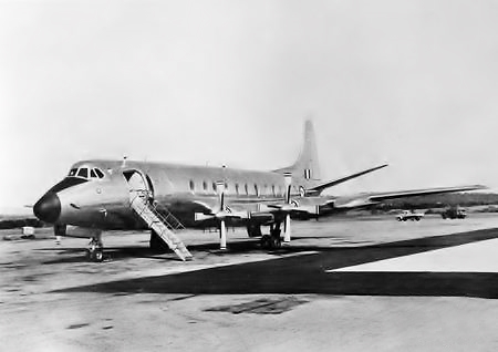 Fairbairn, ACT. A RAAF Vickers Viscount aircraft, A6-436 of No. 34 (ST) Squadron at the airstrip. This was formerly the Shah of Persia's aircraft. (Donor: C. A. Lynch).